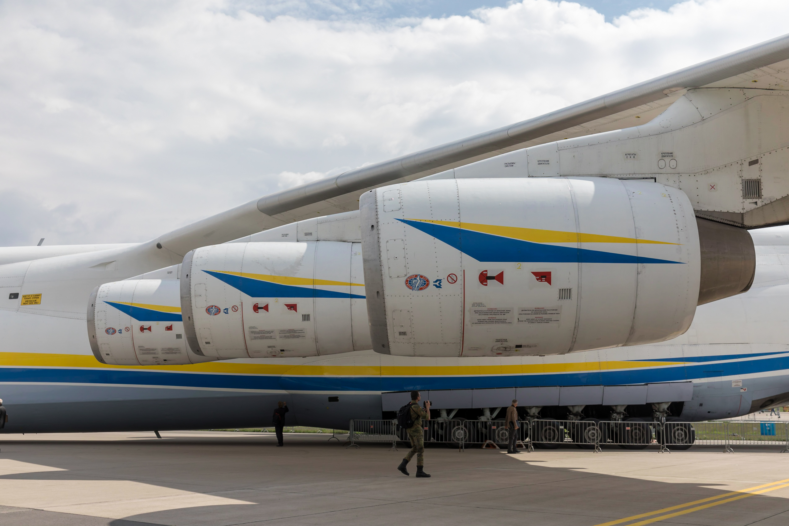 An-225 Engines Progress D-18T, ILA 2018